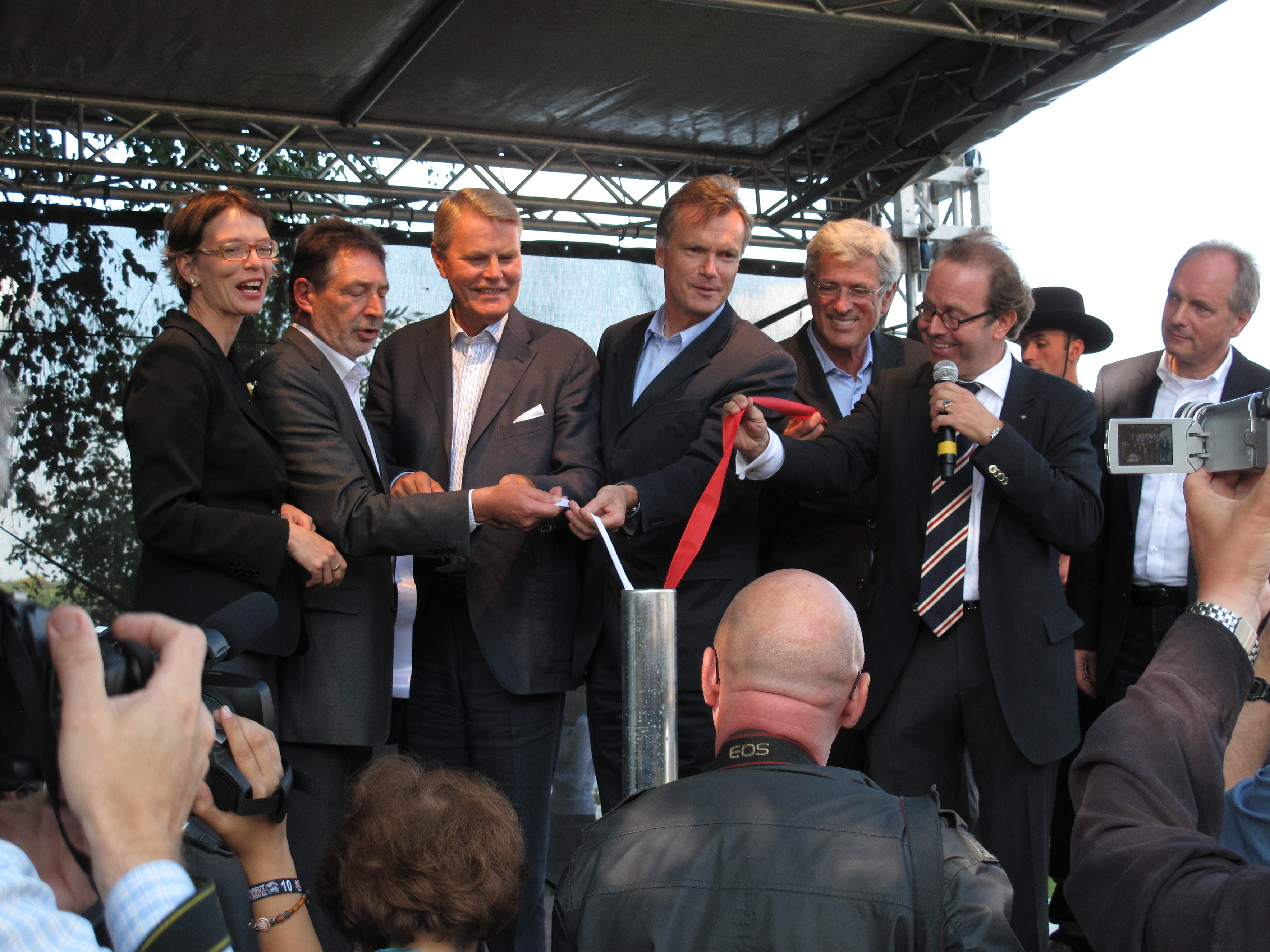 Base laying ceremony for the reconstruction of the former welcoming pavilion „Vente-Halle“ of the Matrosenstation Kongsnæs (sailors station Kongsnæs) on 11th September 2010 in Potsdam, Brandenburg, Germany.